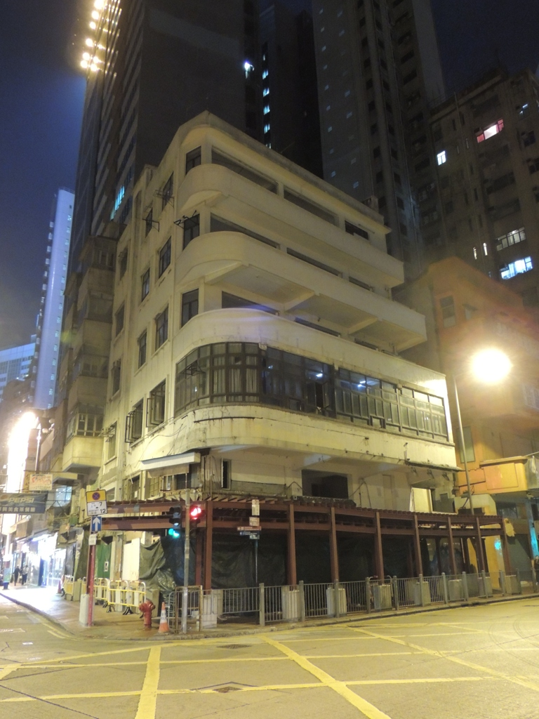 66 Jardine's Bazaar / Irving Street